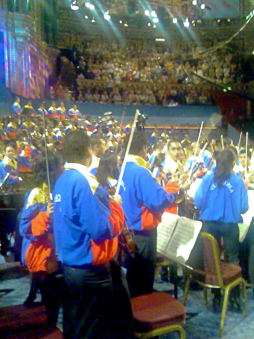 Shot from the audience of the celebrated concert at the Albert Hall in 2007